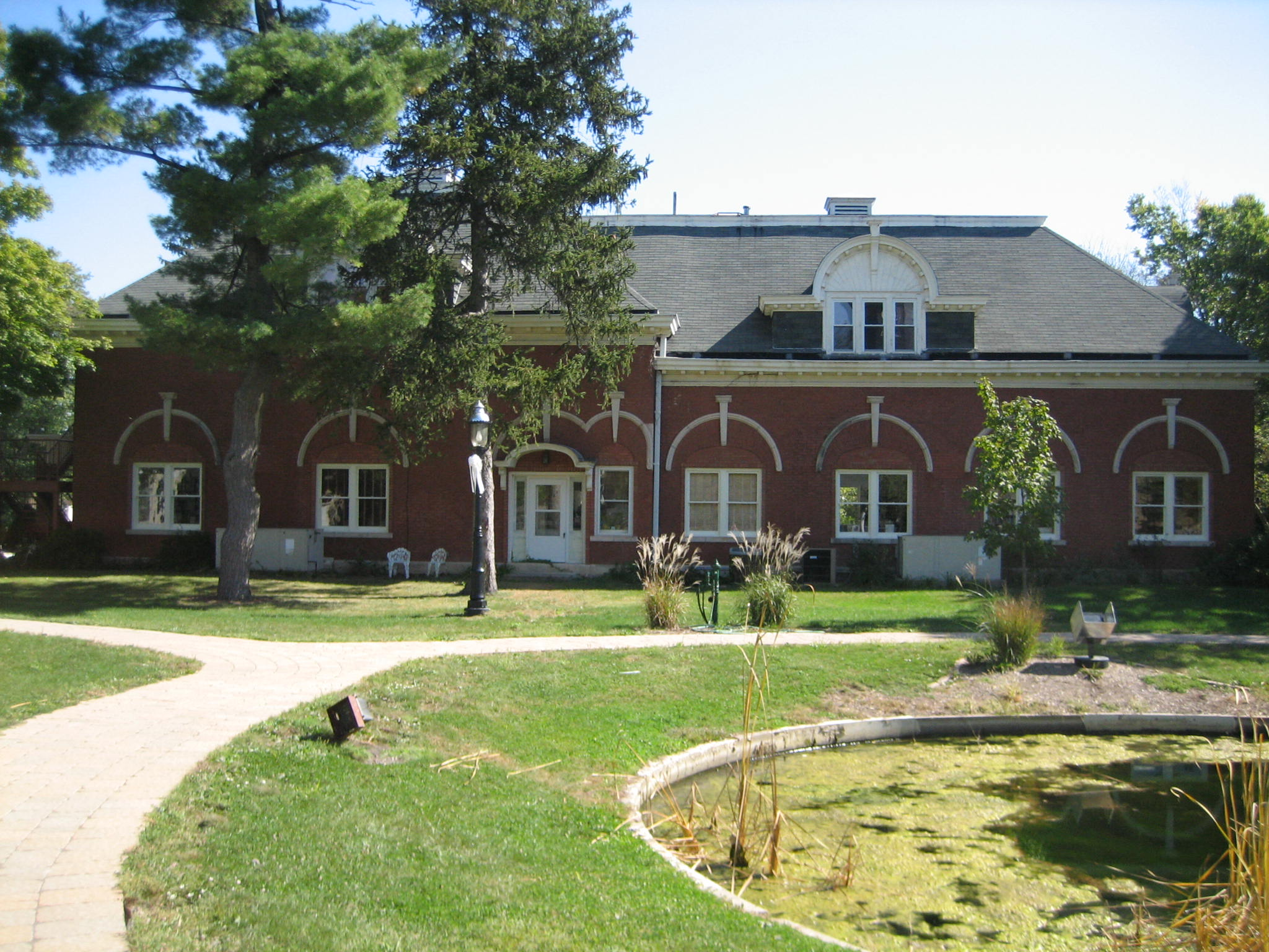 Dwight, Illinois, USA. Downtown. Dwight, Illinois, USA. Public Library.